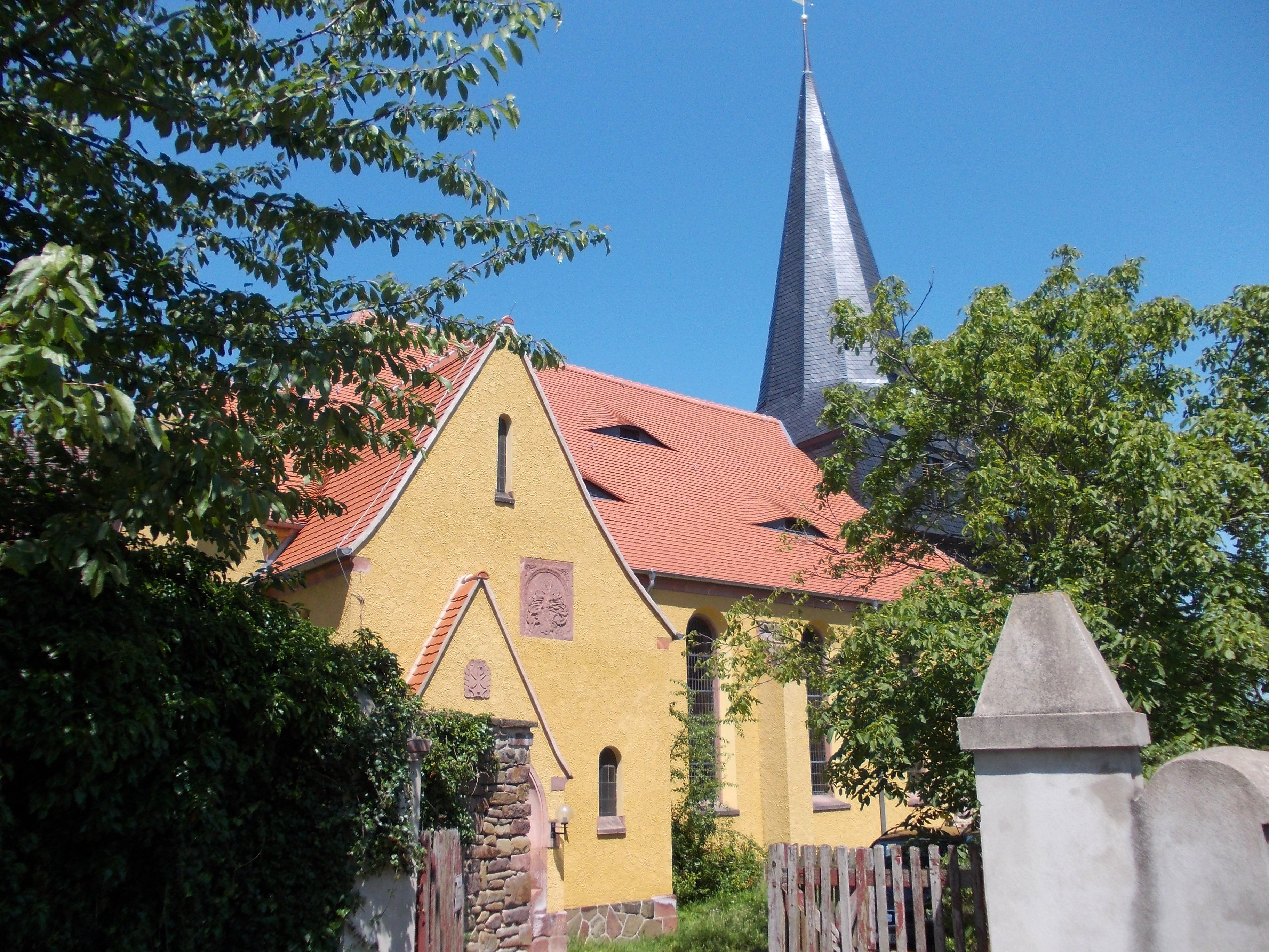 Collmen church (Colditz, Leipzig district, Saxony)